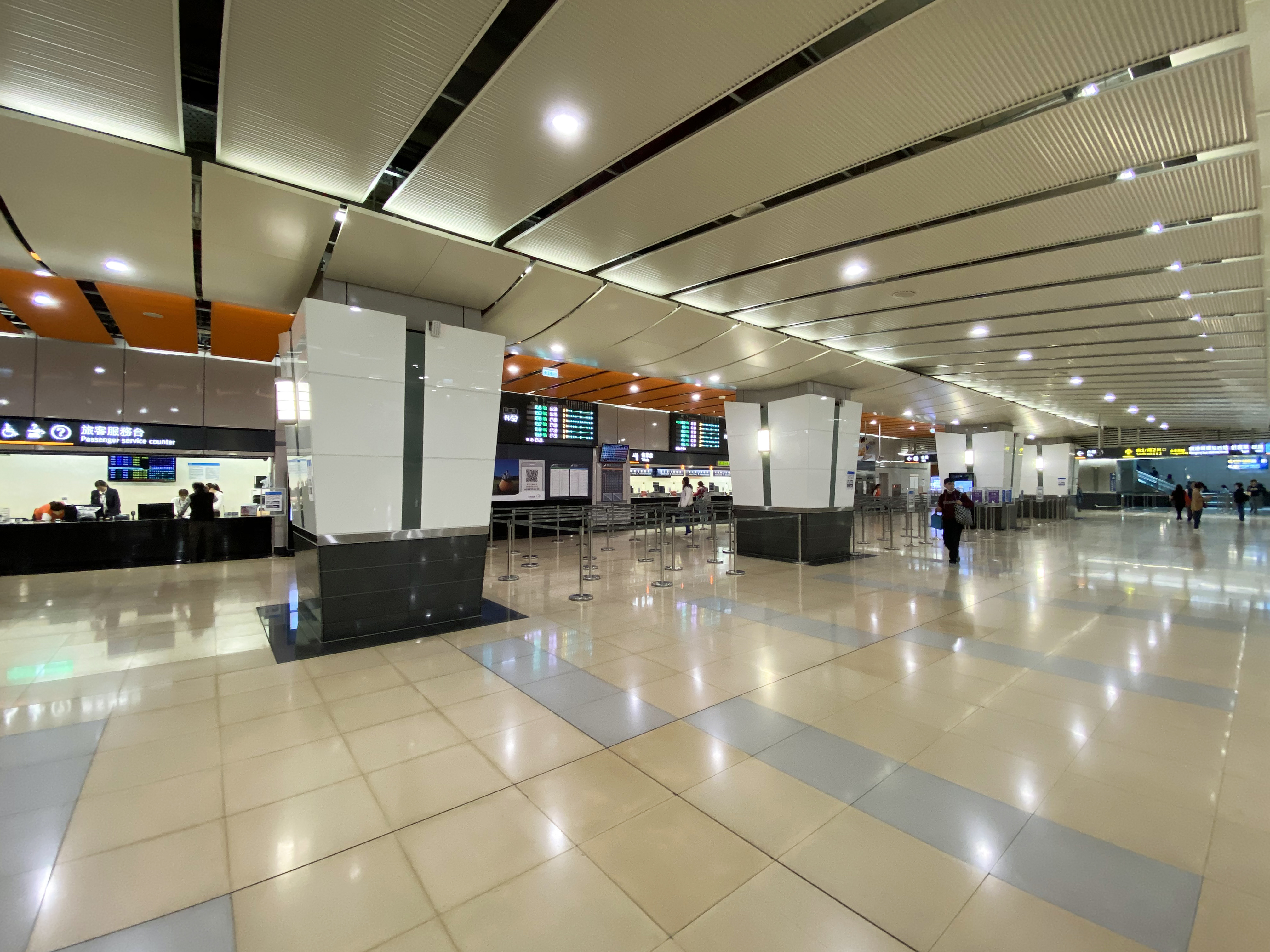 Nangang Station HSR Concourse